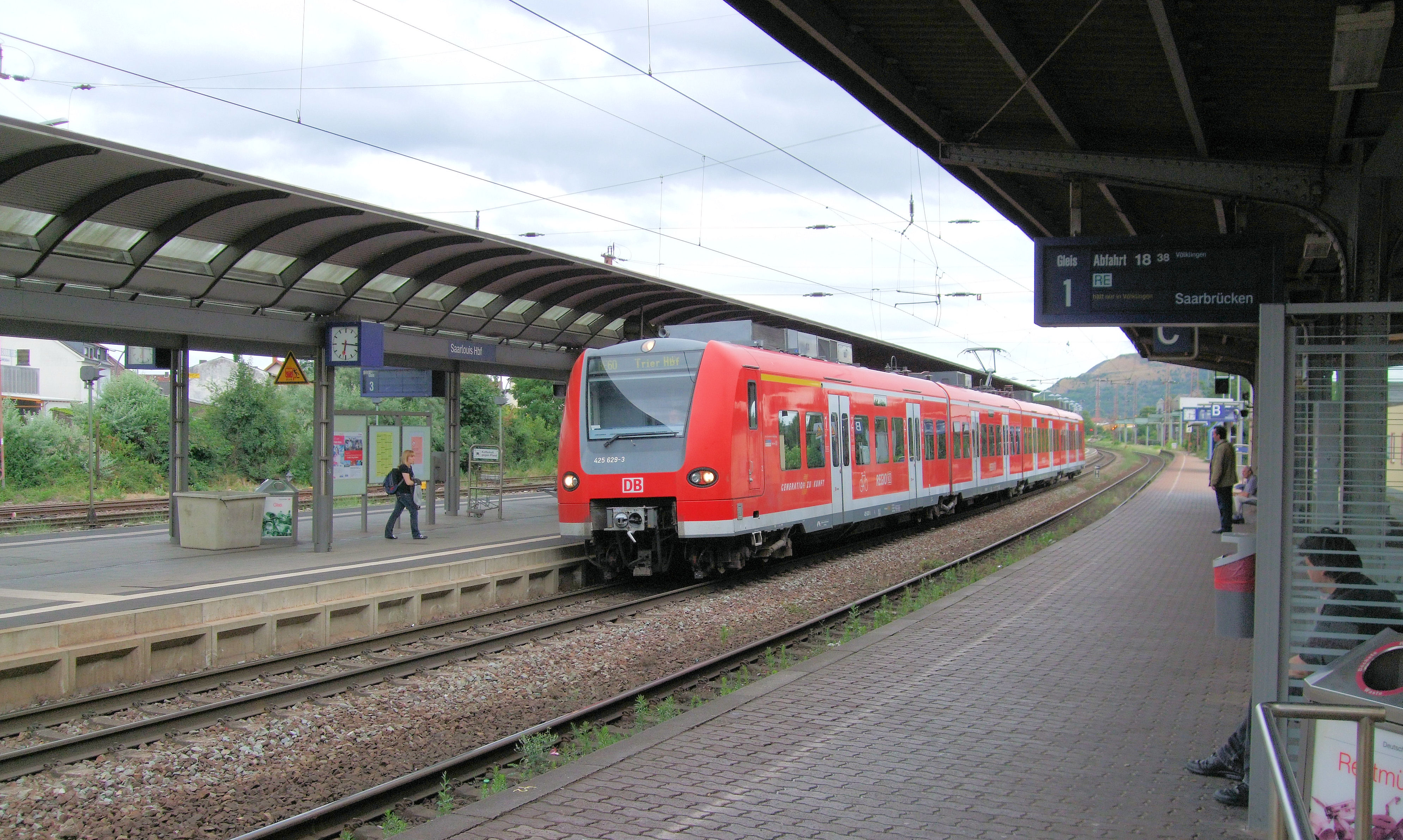 The Saarbrucken to Trier train arrives on time.